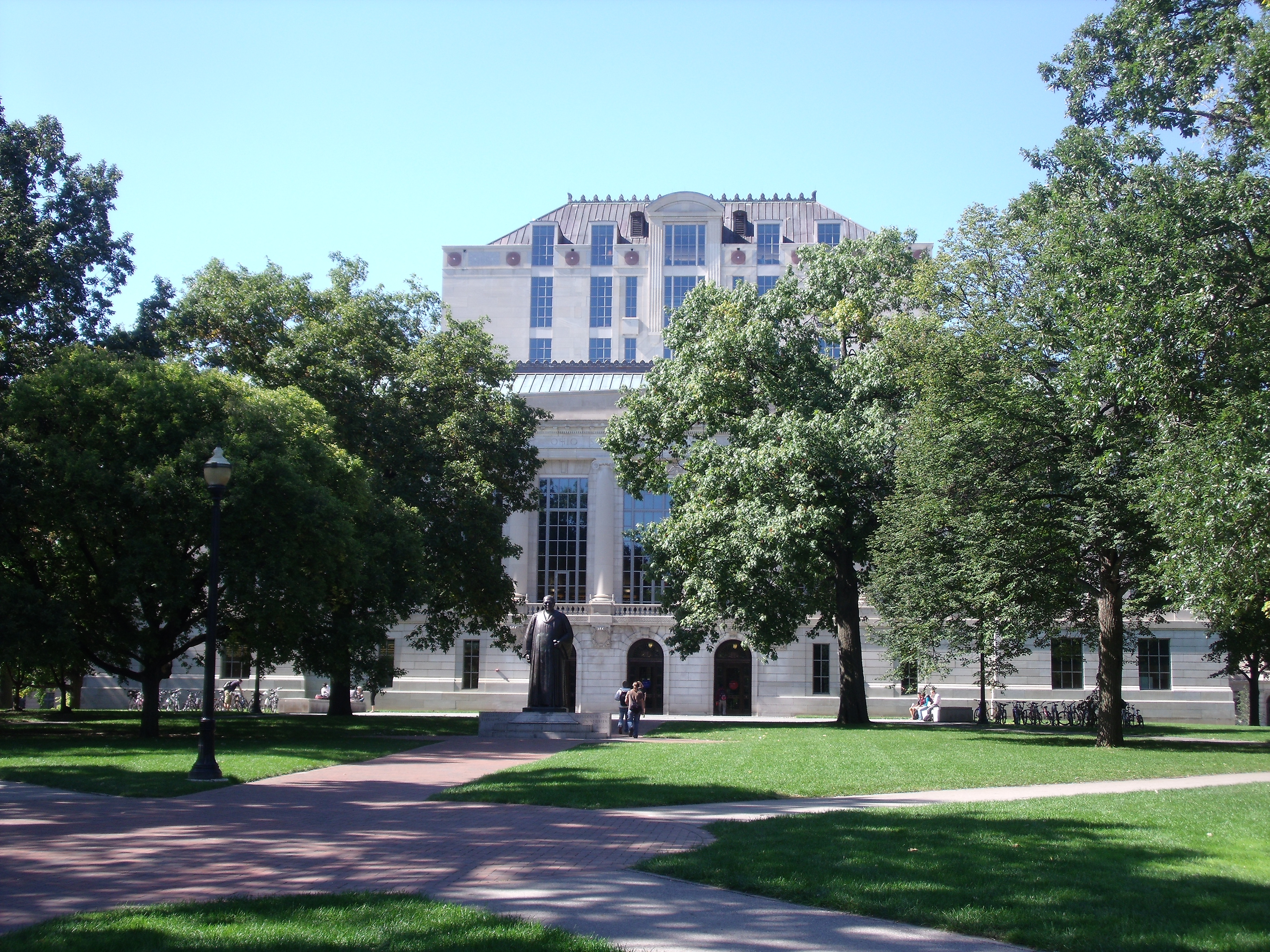 Thompson Library